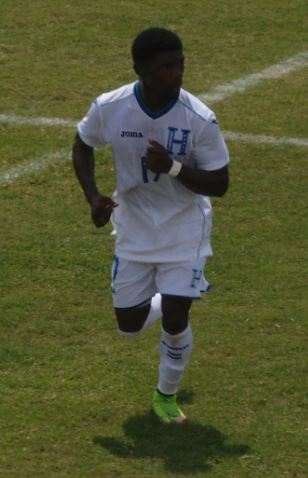 Marlon Ramirez 2015